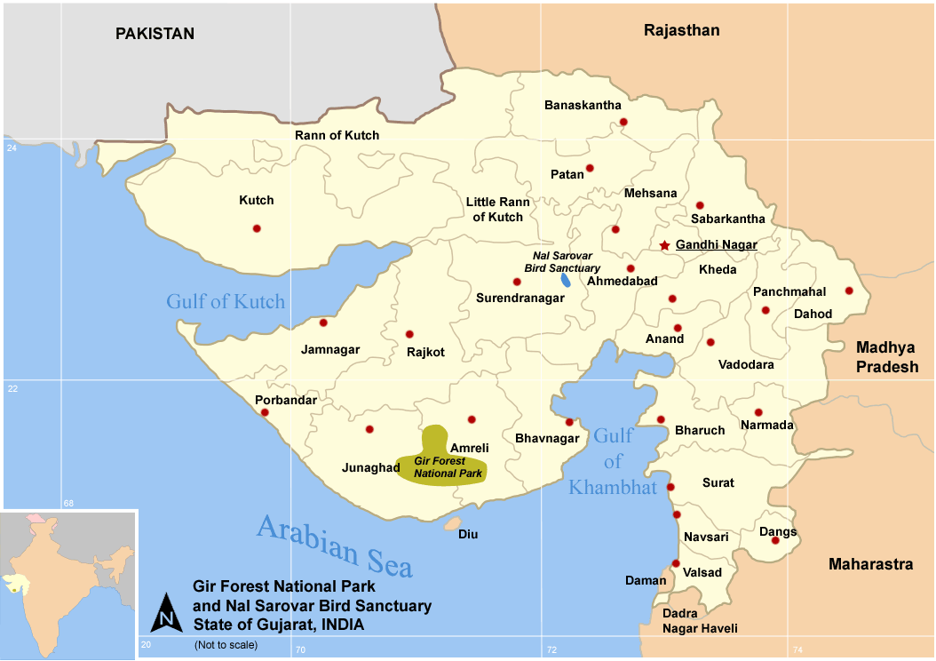 The Gir Forest National Park and Wildlife Sanctuary (also known as Sasan-Gir) and Nal Sarovar Bird Sanctuary in Gujarat State, India. Also – while not mentioned on the map – the Marine National Park is situated in the Gulf of Kutch.